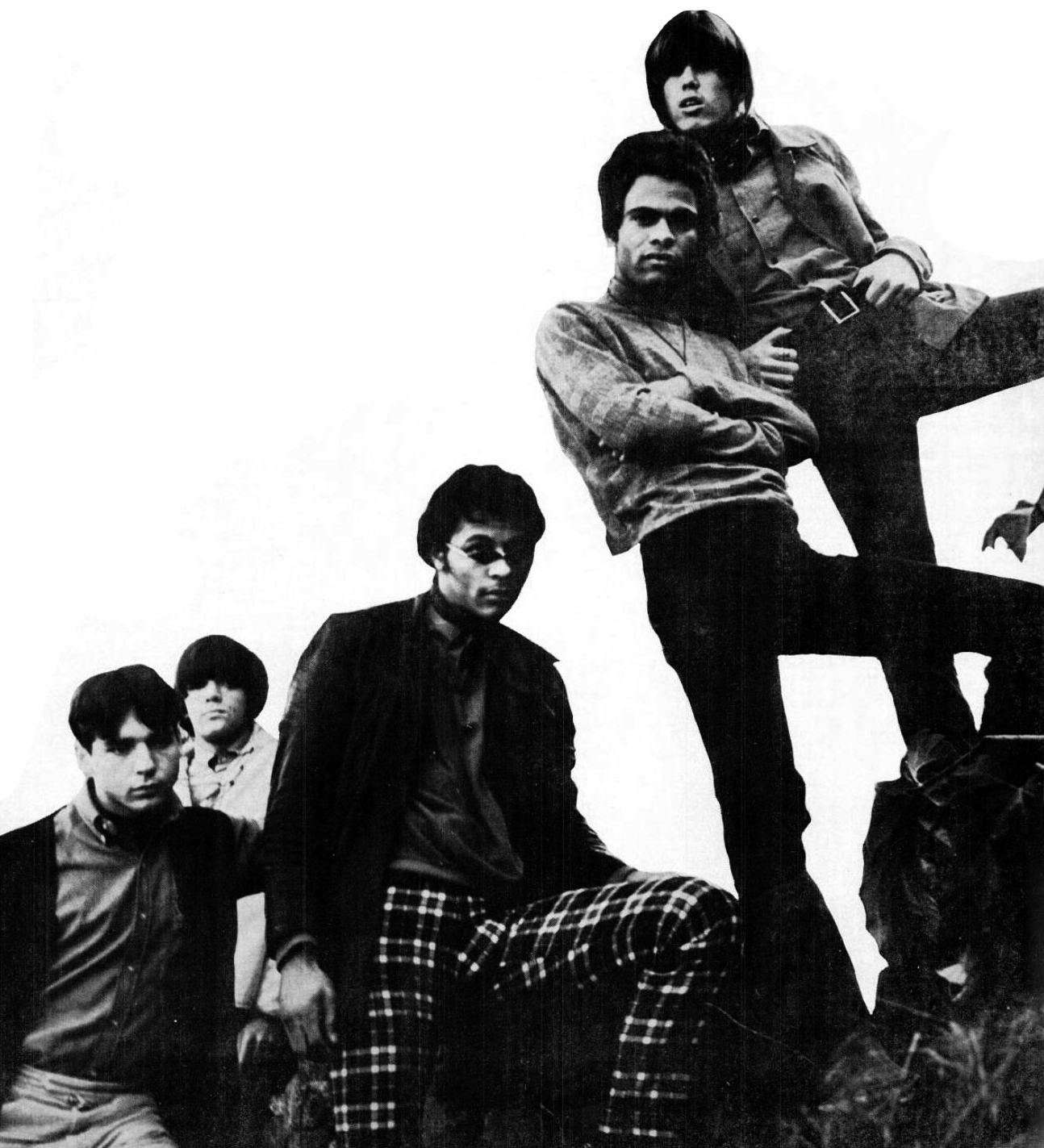 Trade ad for Love's single "My Little Red Book".To better adapt it to his respective Wikipedia article, the ad was cropped and cleaned in a graphics editing program. The original can be viewed at the source below.